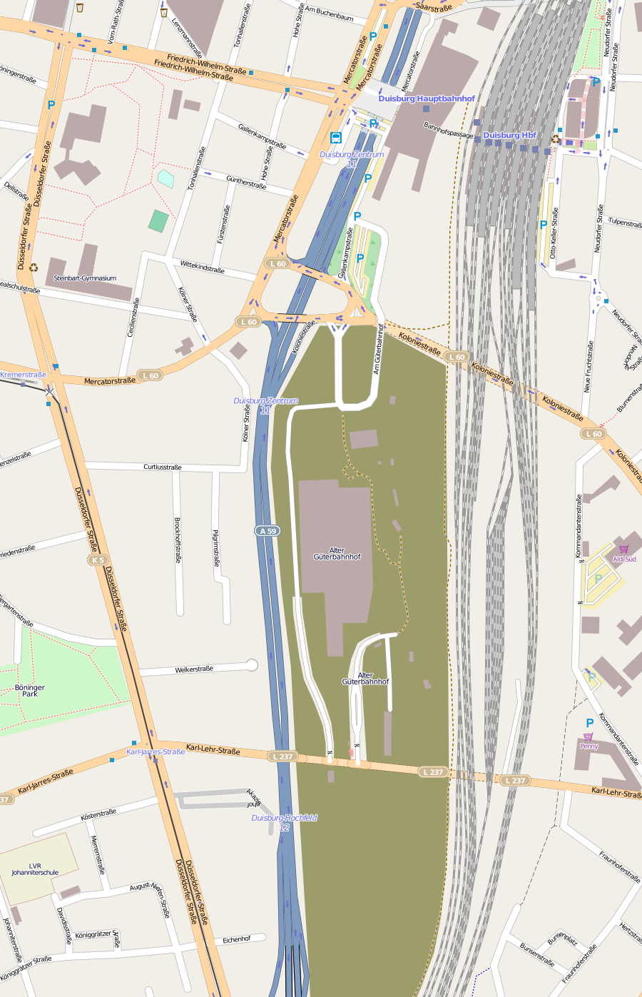 This map of Duisburg was created from OpenStreetMap project data, collected by the community. This map may be incomplete, and may contain errors. Don't rely solely on it for navigation.